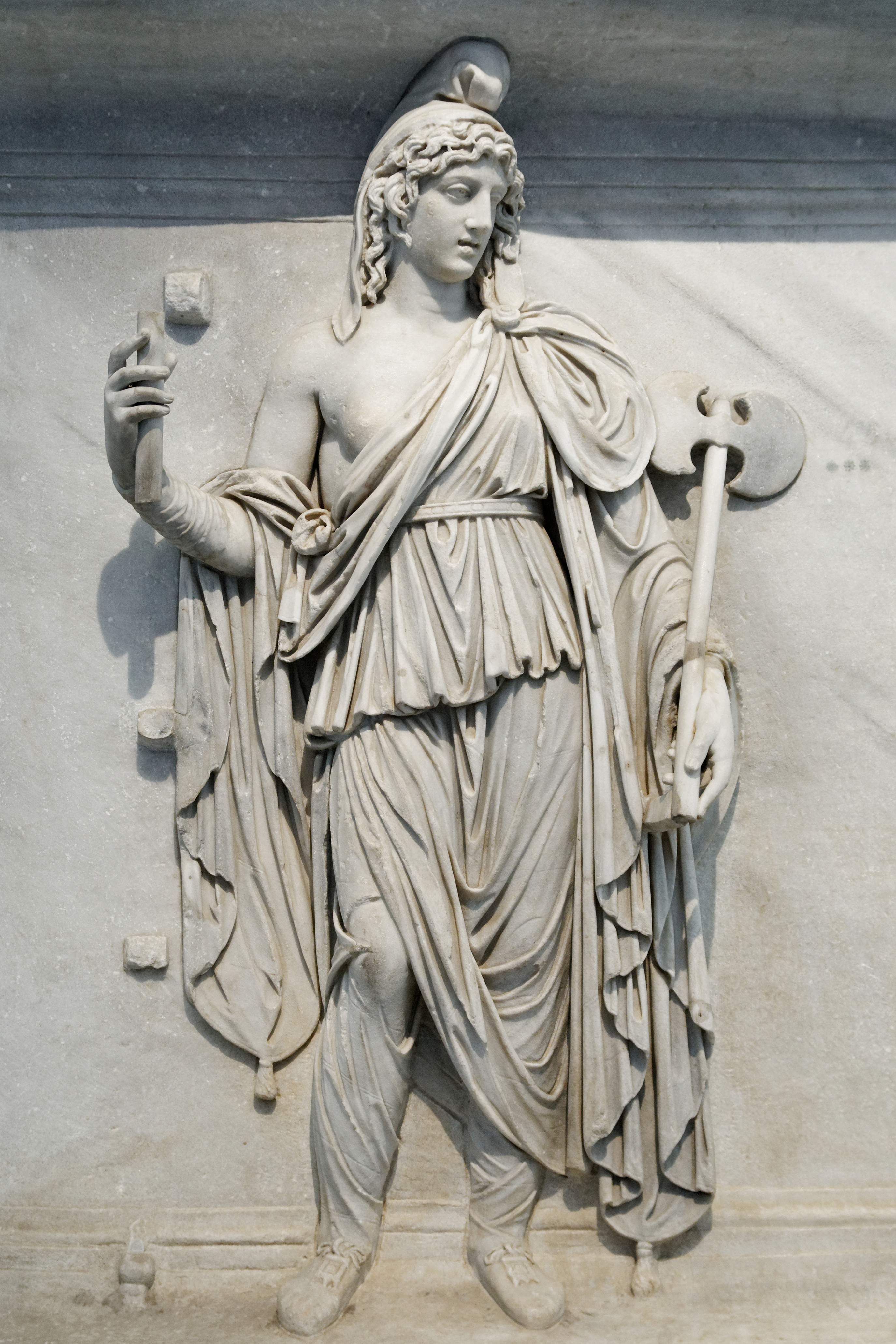 Bithynia, one of the representations of Roman provinces (Phrygia or Bithinia) from the Hadrianeum, temple to the deified Hadrian erected by Antoninus Pius in 145.